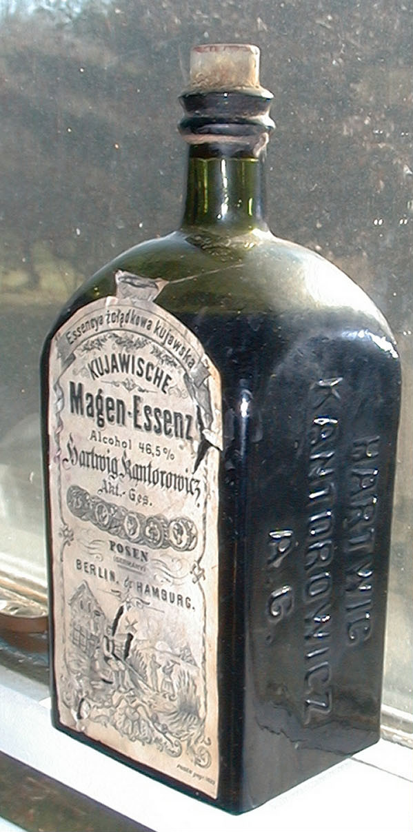 A bottle of Kujawy bitters (“Kujawy stomach essence”) made by Hartwig Kantorowicz AG of Posen (Poznań), then Germany. Front view of the whole bottle.